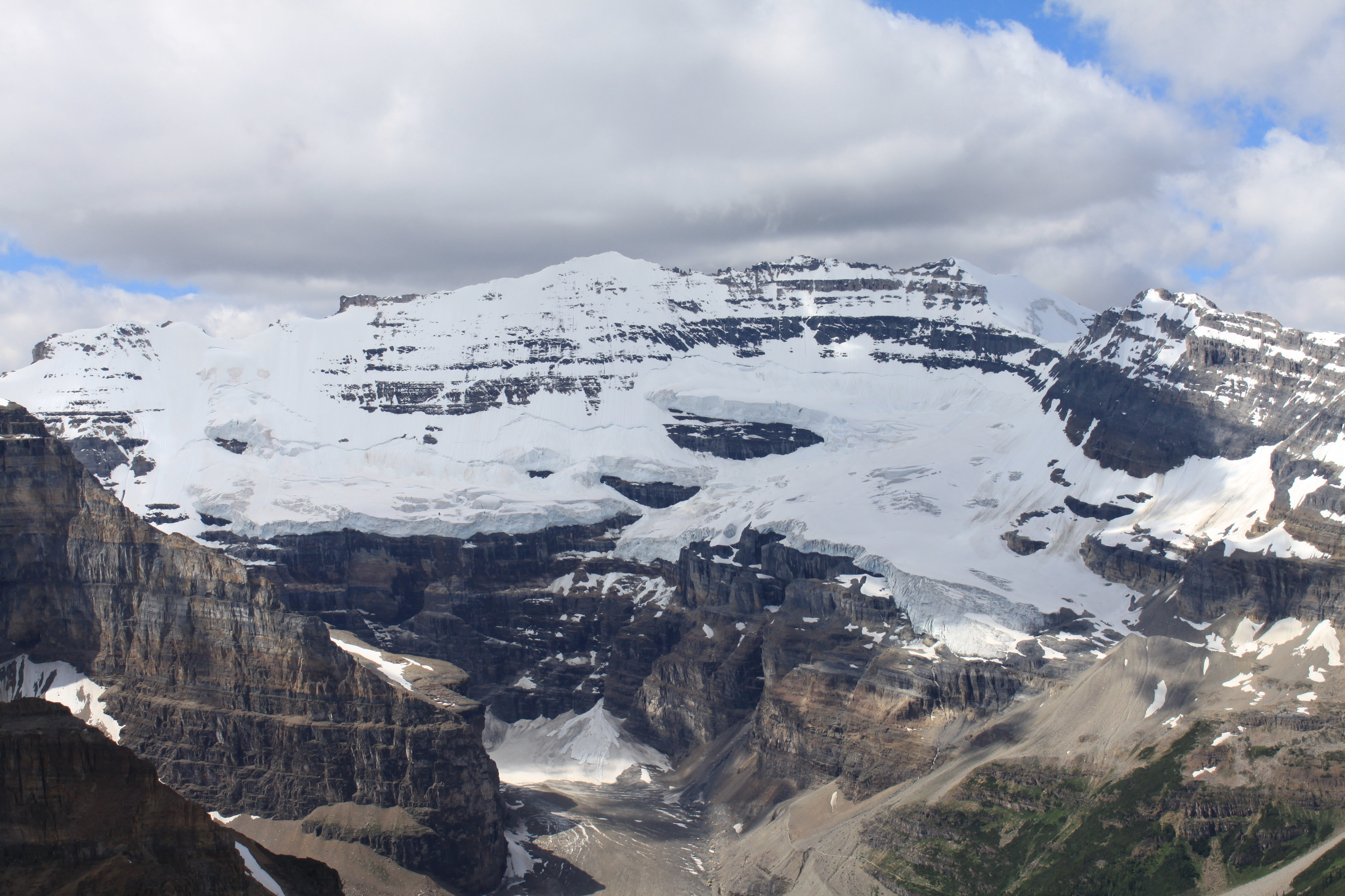 Mount Victoria in the Bow Range of Banff National Park, Alberta/British Columbia, Canada. Picture taken from the summit of Fairview Mountain.